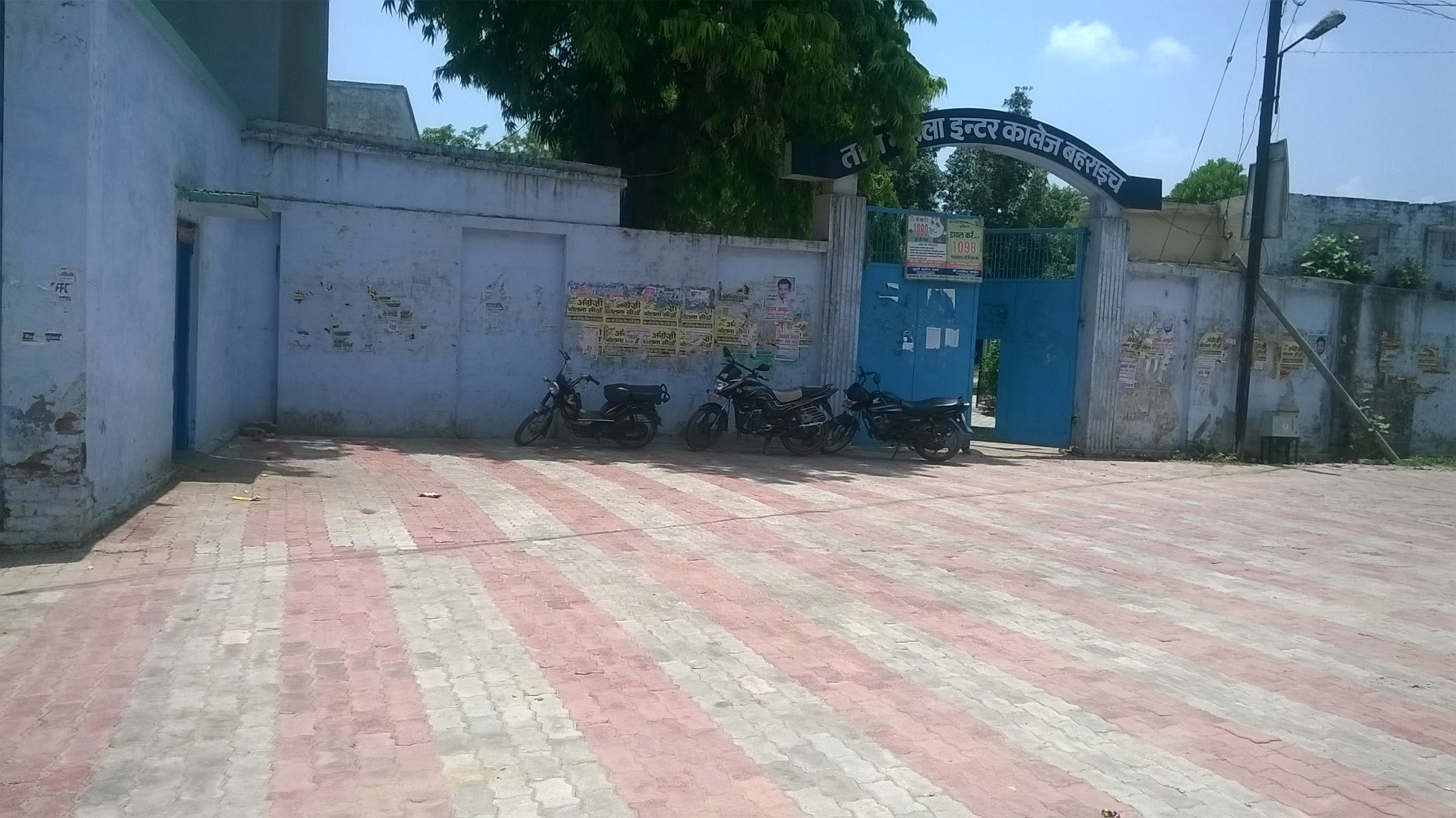 Tara Girls Inter College Bahraich. Leading Women Education Institute in Bahraich City.